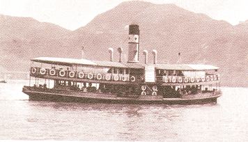 香港20世紀初的天星小輪。Star Ferry in early 20th century's Hong Kong.